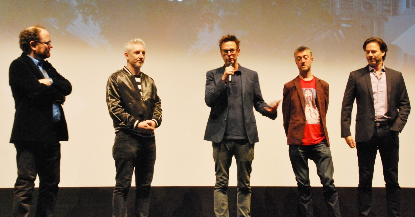 Saturday, September 10, 2016 at the Ryerson Theatre in Toronto, Canada